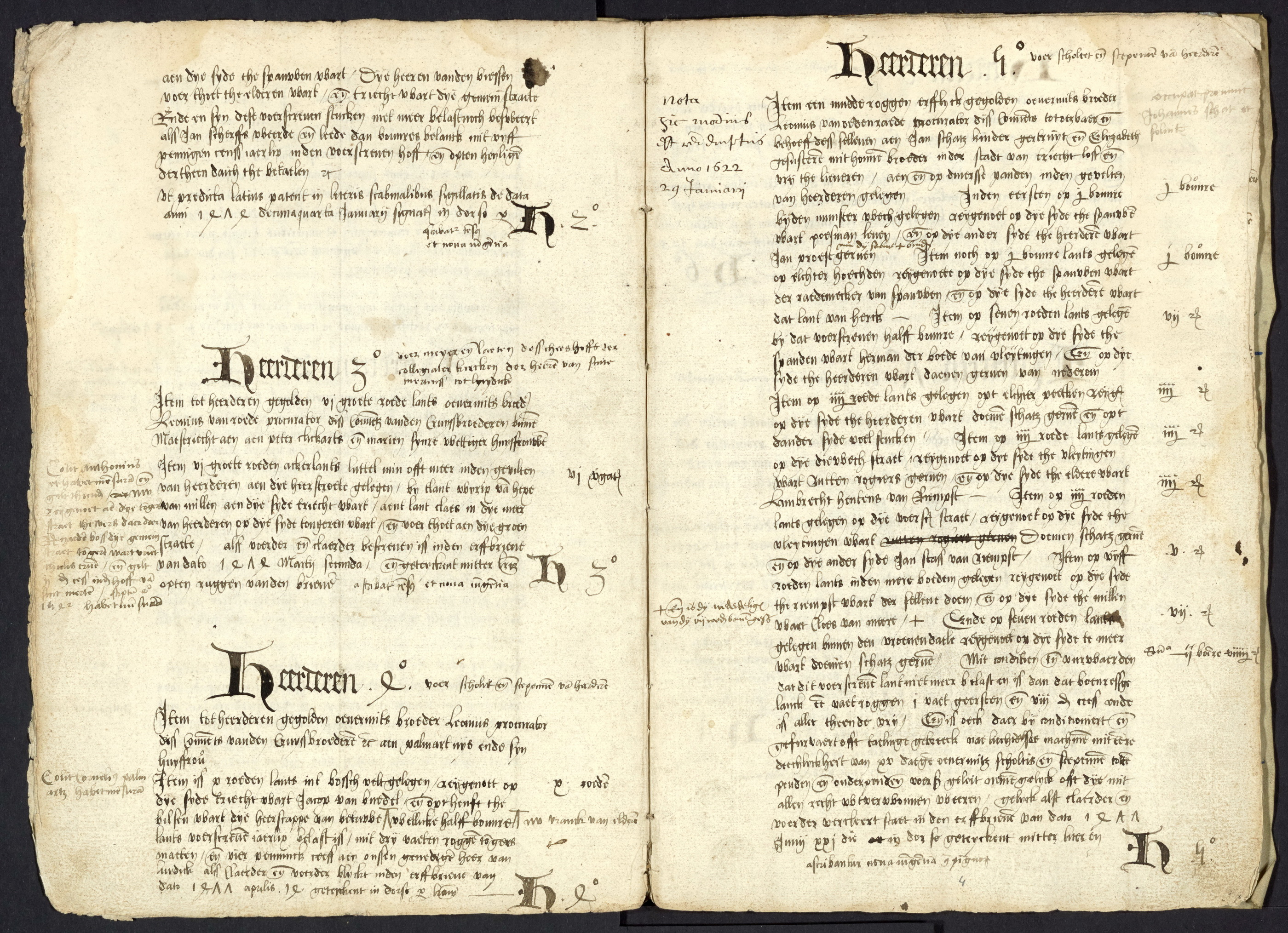 Register of possessions in Herderen, owned by the Monastery of the Croziers (Kruisherenklooster) in Maastricht around 1550. Archief van het Kruisherenklooster in Maastricht, RHCL, Maastricht, the Netherlands.